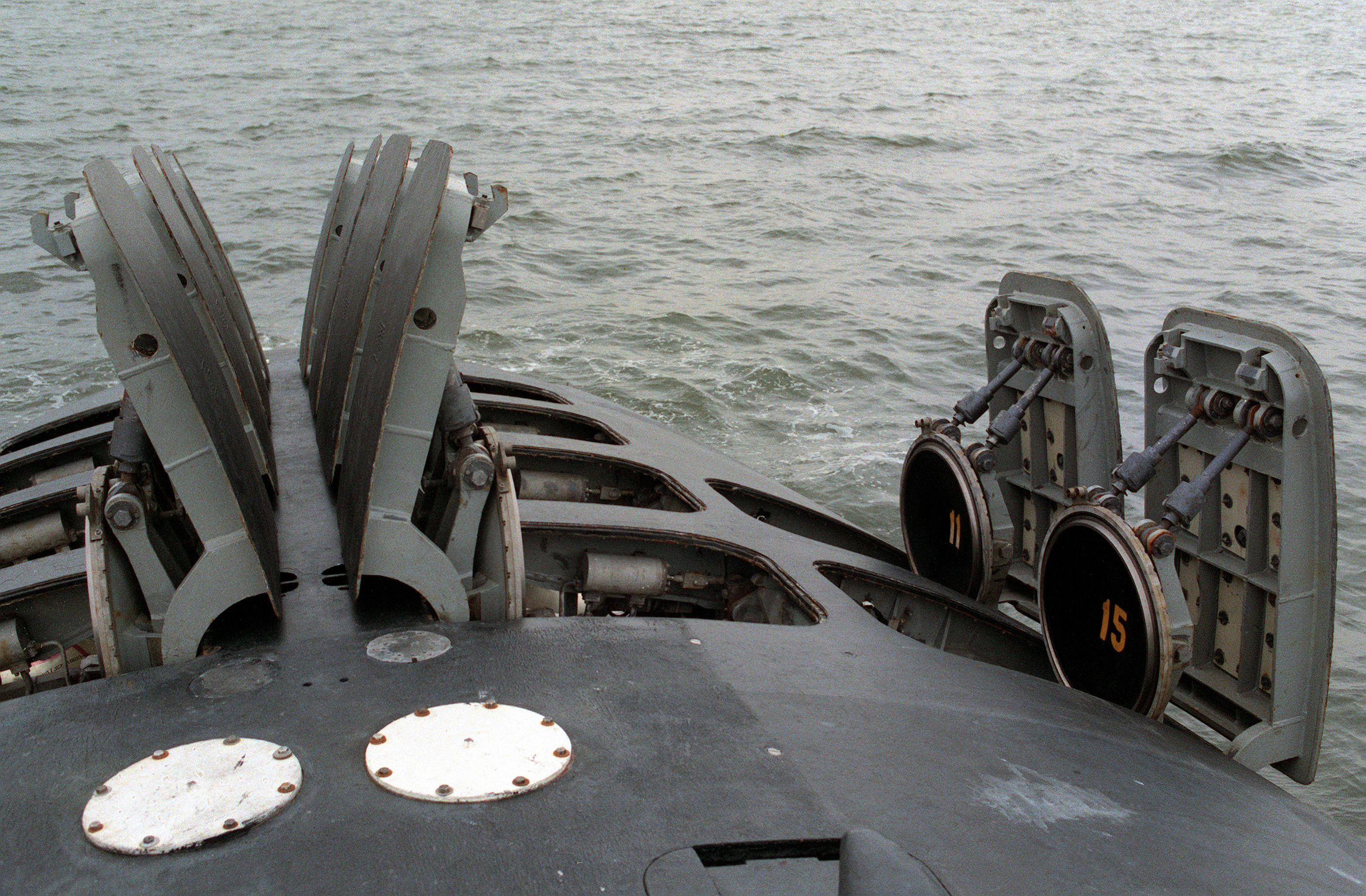 DN-SC-91-05265 The hatches of the 12 vertical-launch Tomahawk missile tubes stand open on the bow of the nuclear-powered attack submarine USS OKLAHOMA CITY (SSN-723).